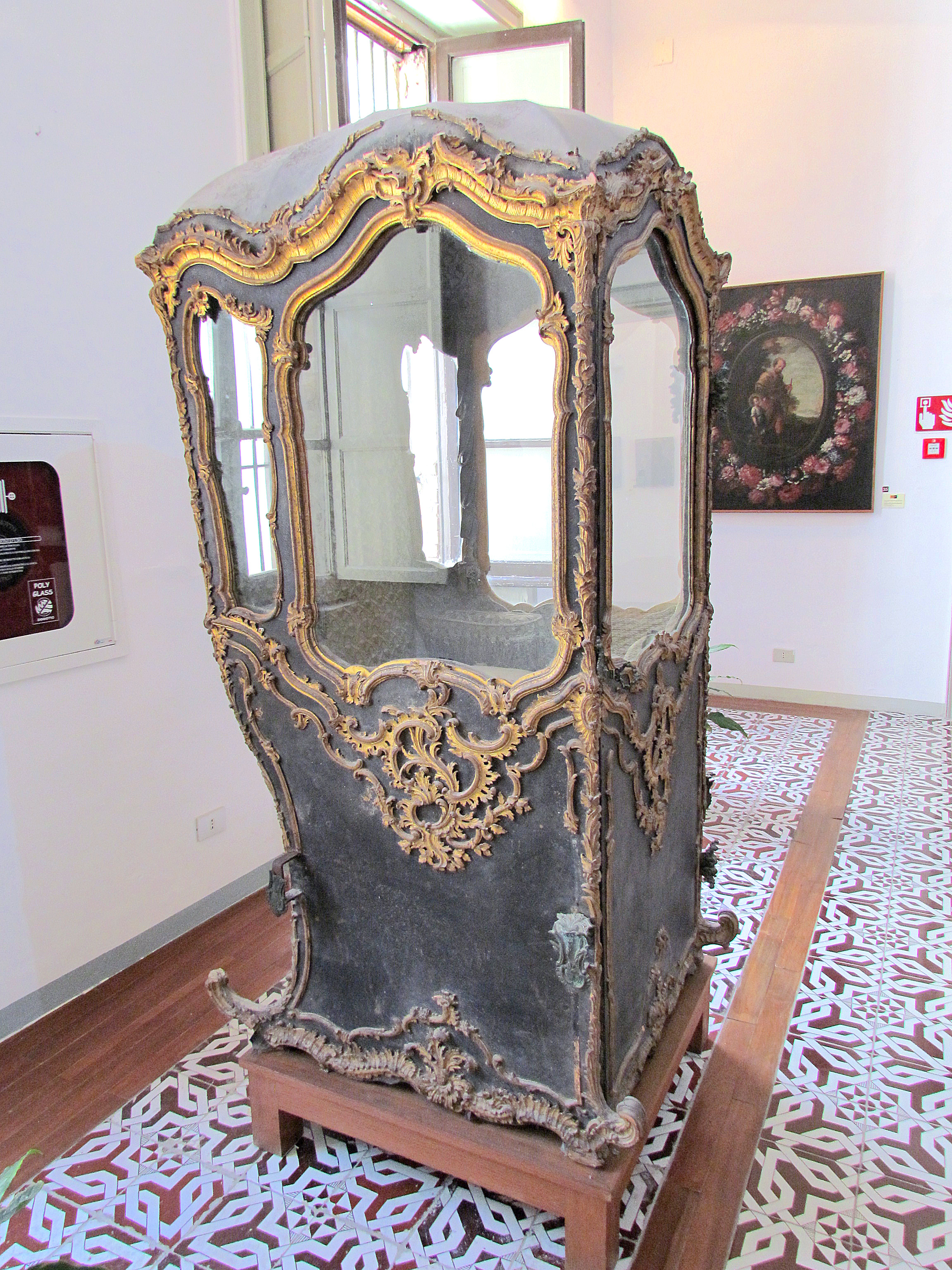 Rococo sedan chair